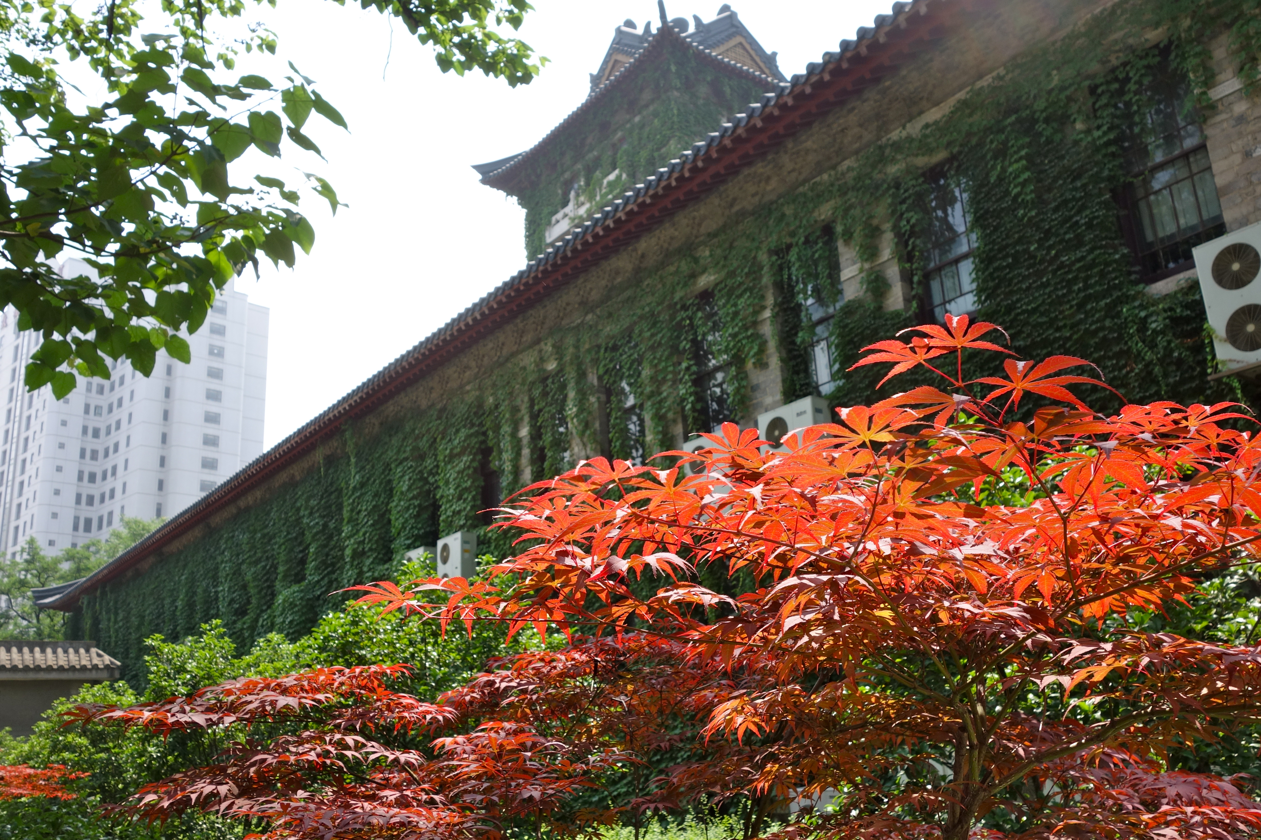 Our research team spent a day on the beautiful campus of Nanjing University.